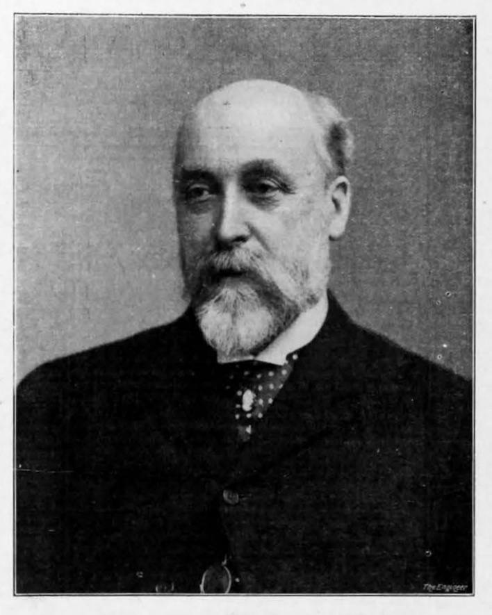 Photograph of Francis William Webb